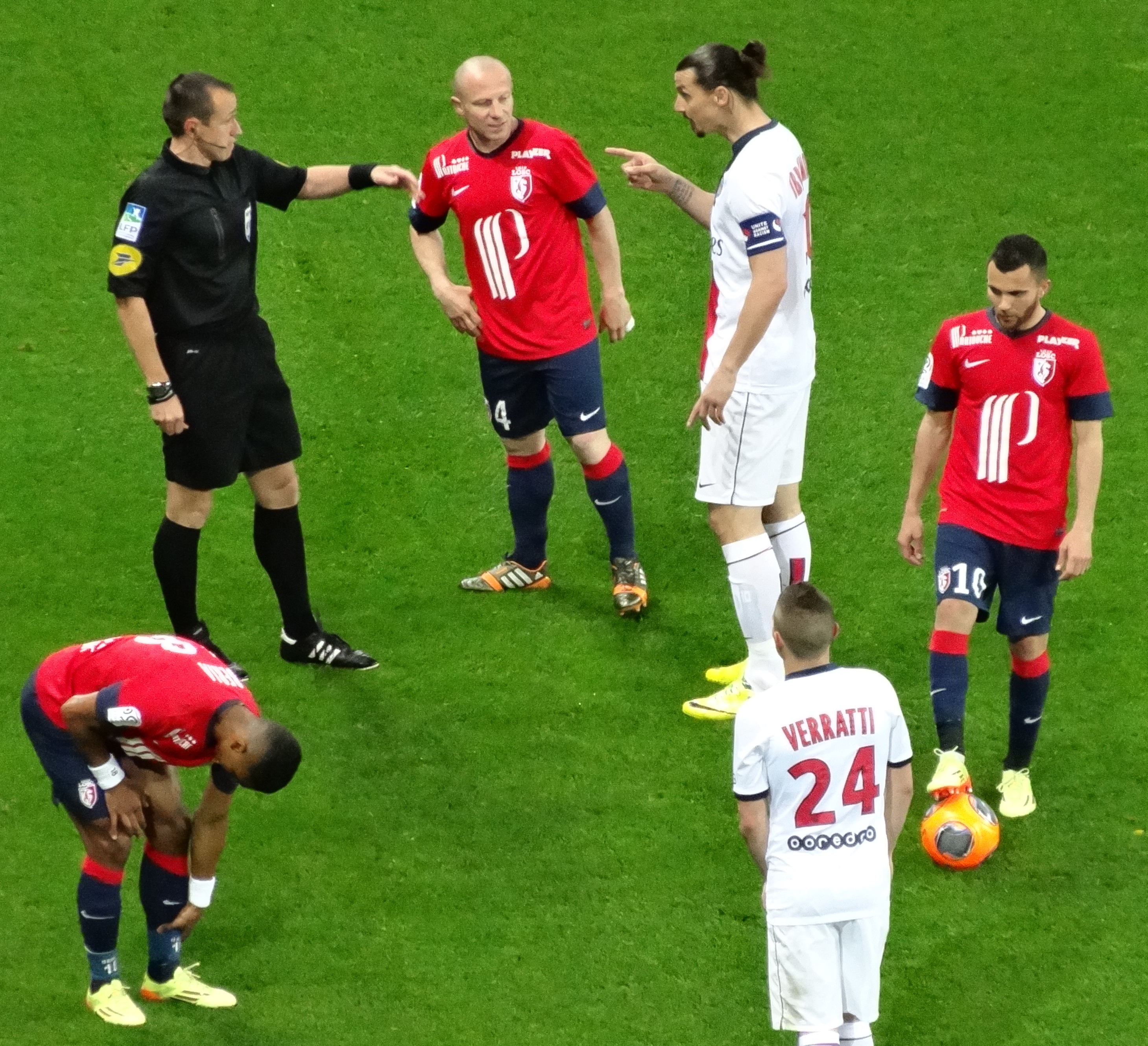 Ruddy Buquet & Zlatan Ibrahimović